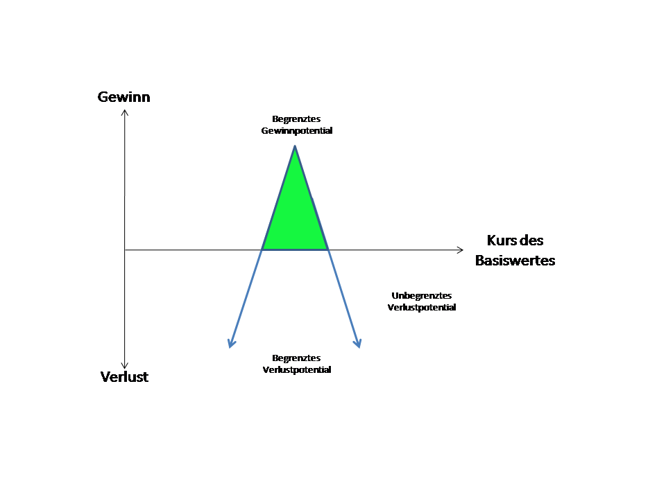 Short Straddle